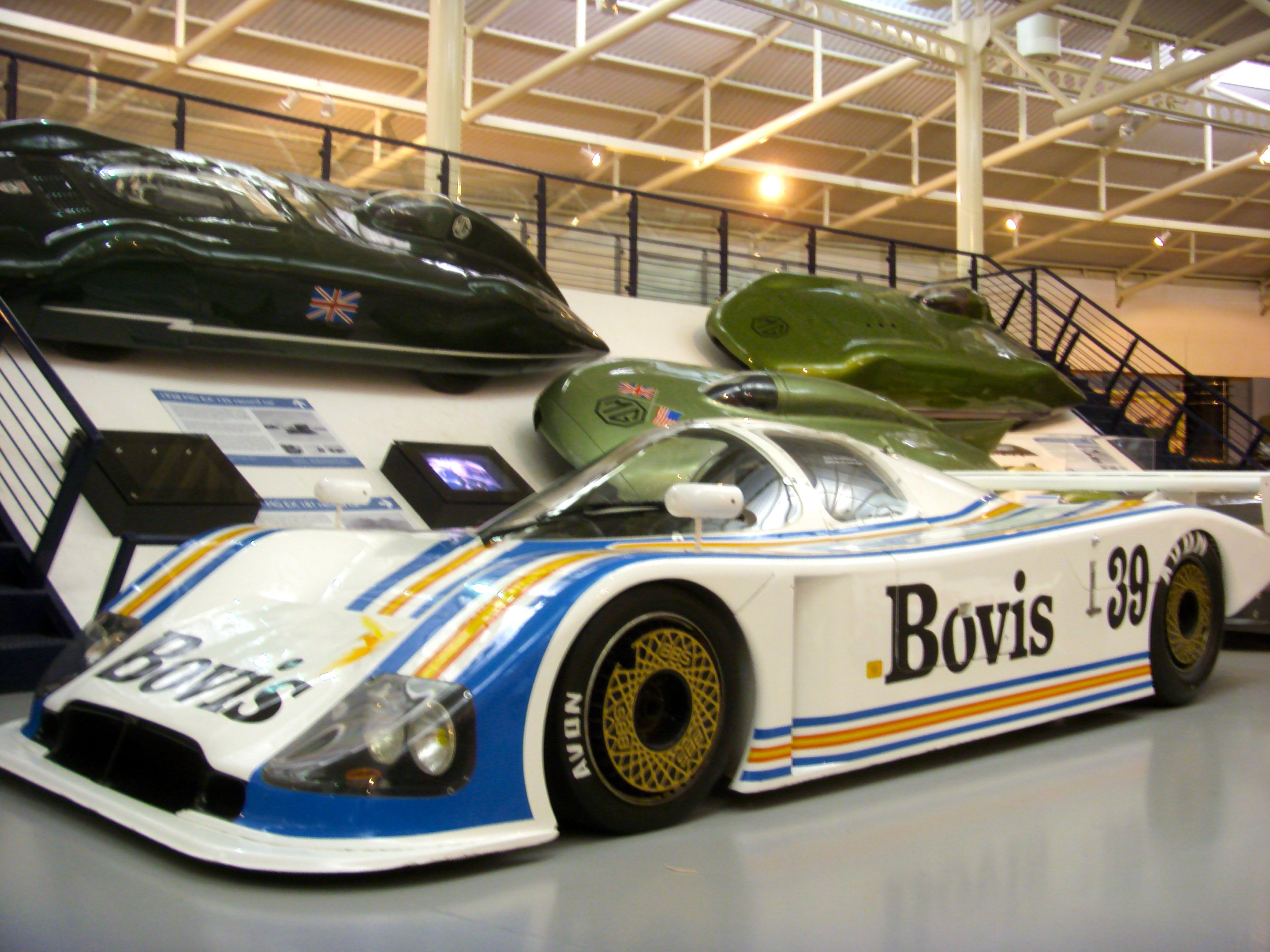 1982 Aston Martin Nimrod Group C Race Car